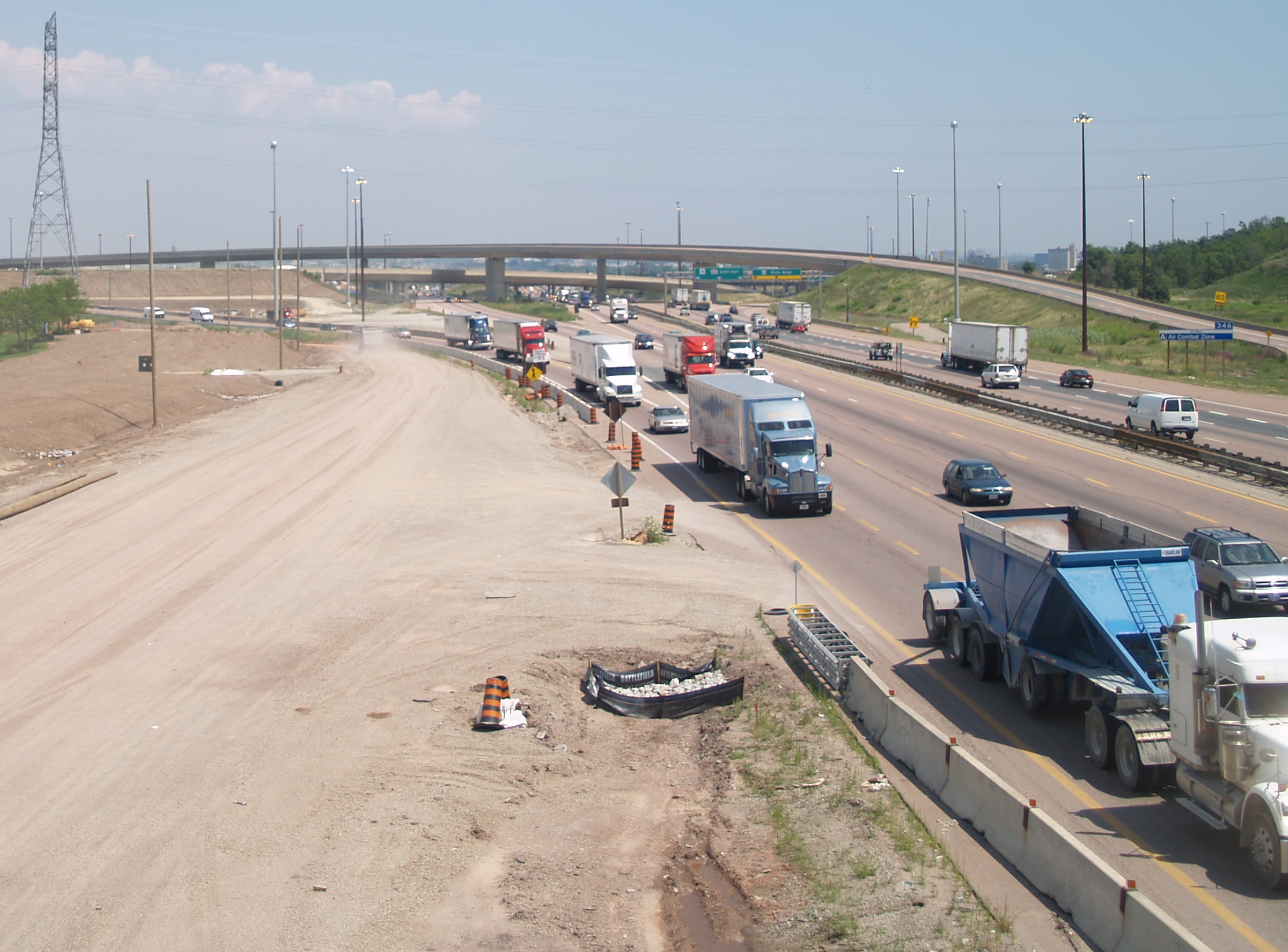 The 401/403/410 mega interchange facing east along the 401. Note also construction at the bottom left, where the width of Highway 401 is being doubled to twelve lanes.